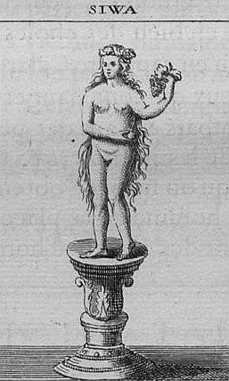 Živa